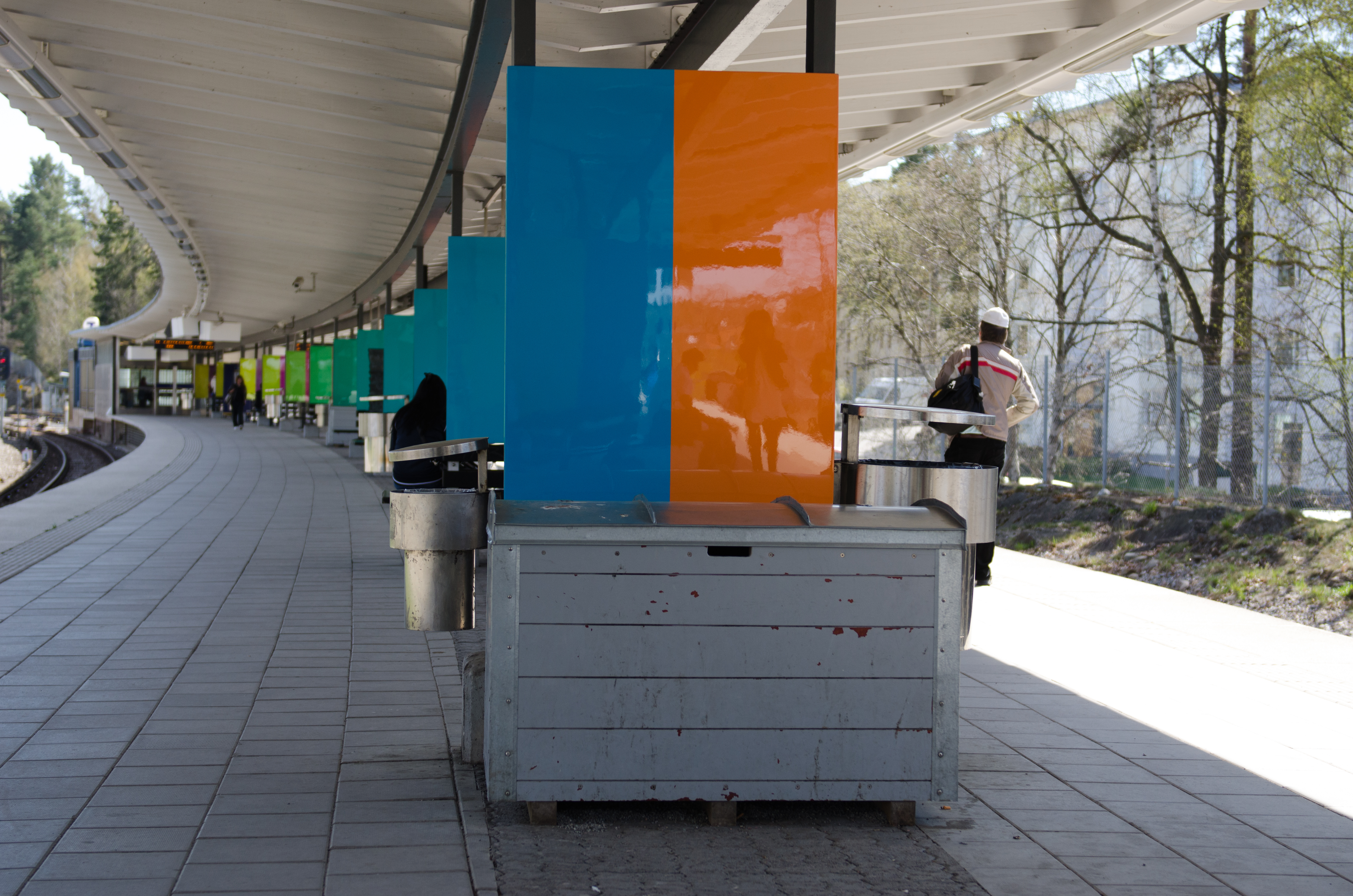 Artwork at Hökarängen metro station. Opened in 1950. Architect Peter Celsing. Artwork by Hanns Karlewski 1995. Bronze sculptures, designs on the floor of the platform and colour prints in the pillars.